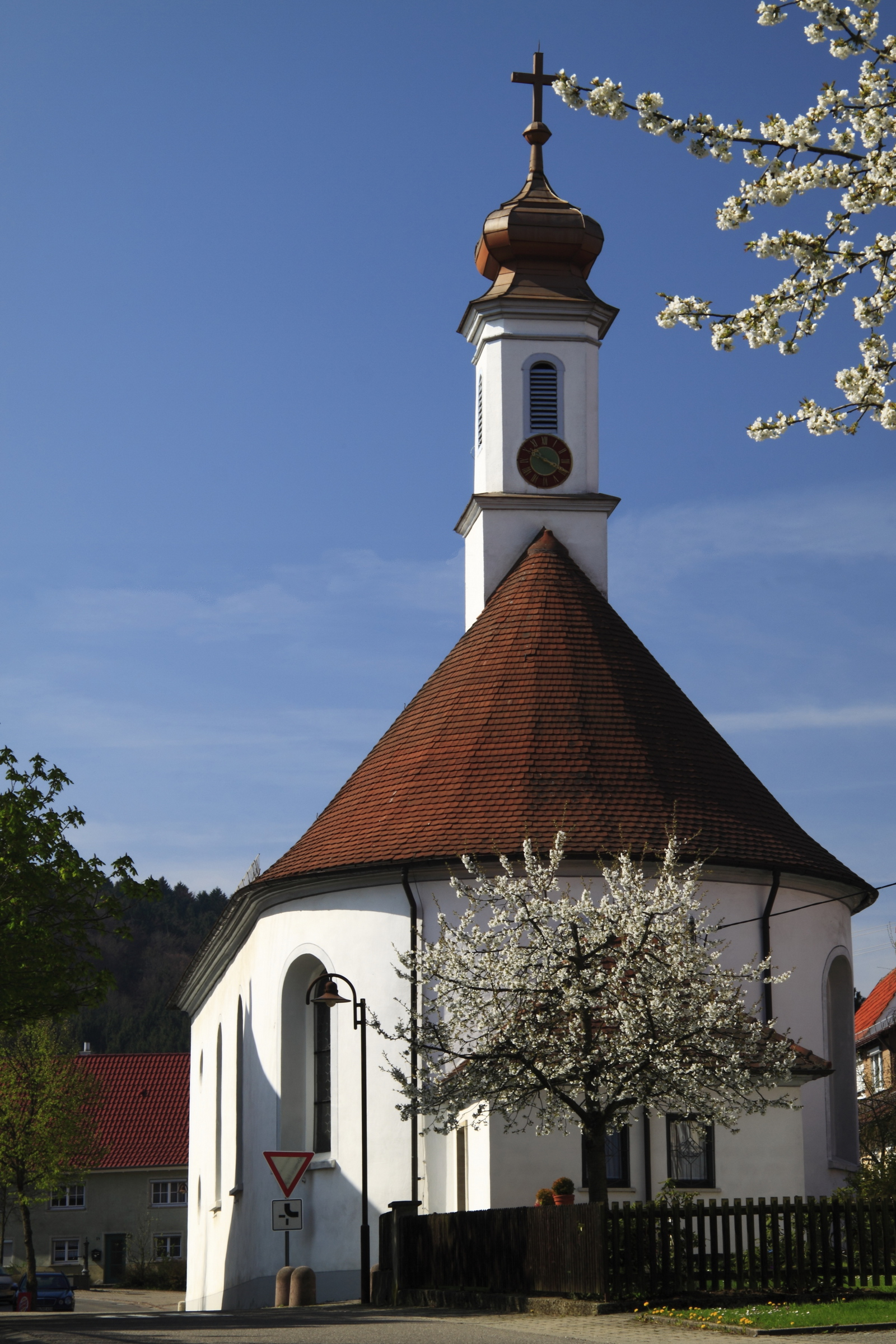 St.Ulrich Church in Bisingen-Thanheim, Germany